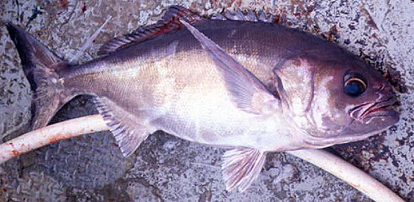 The blue-eyed trevalla (Hyperoglyphe antarctica) lives in the Southern Hemisphere.